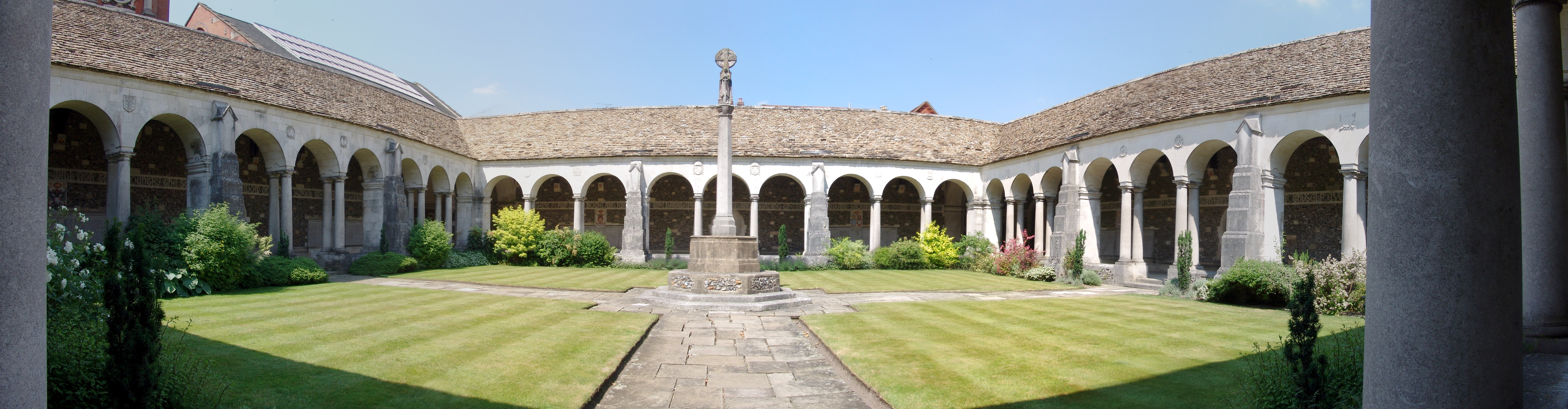 Winchester College War Cloister, Winchester, Hampshire, UK